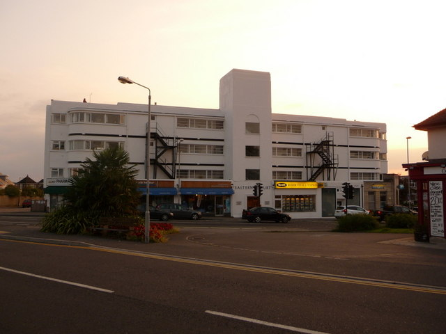 Lilliput: Salterns Court Looking across Anthony's Avenue and Sandbanks Road at this art-deco row of shops with flats above, situated on the latter.